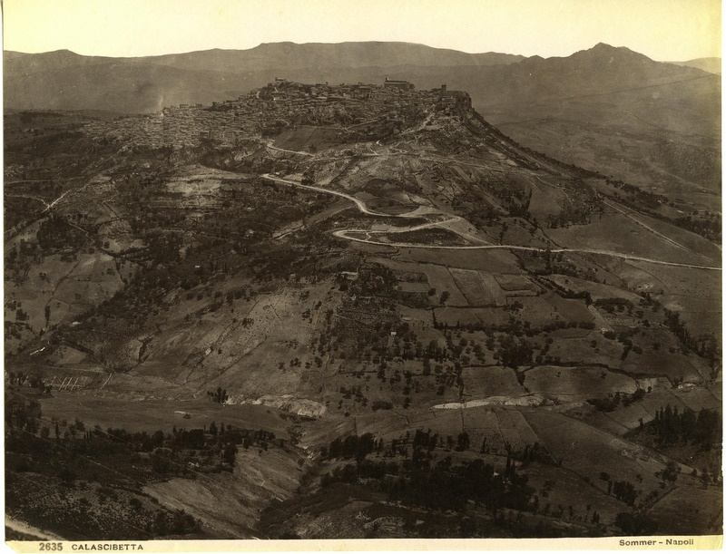 Giorgio Sommer (1834-1914), "Calascibetta". Catalogue # 2635.